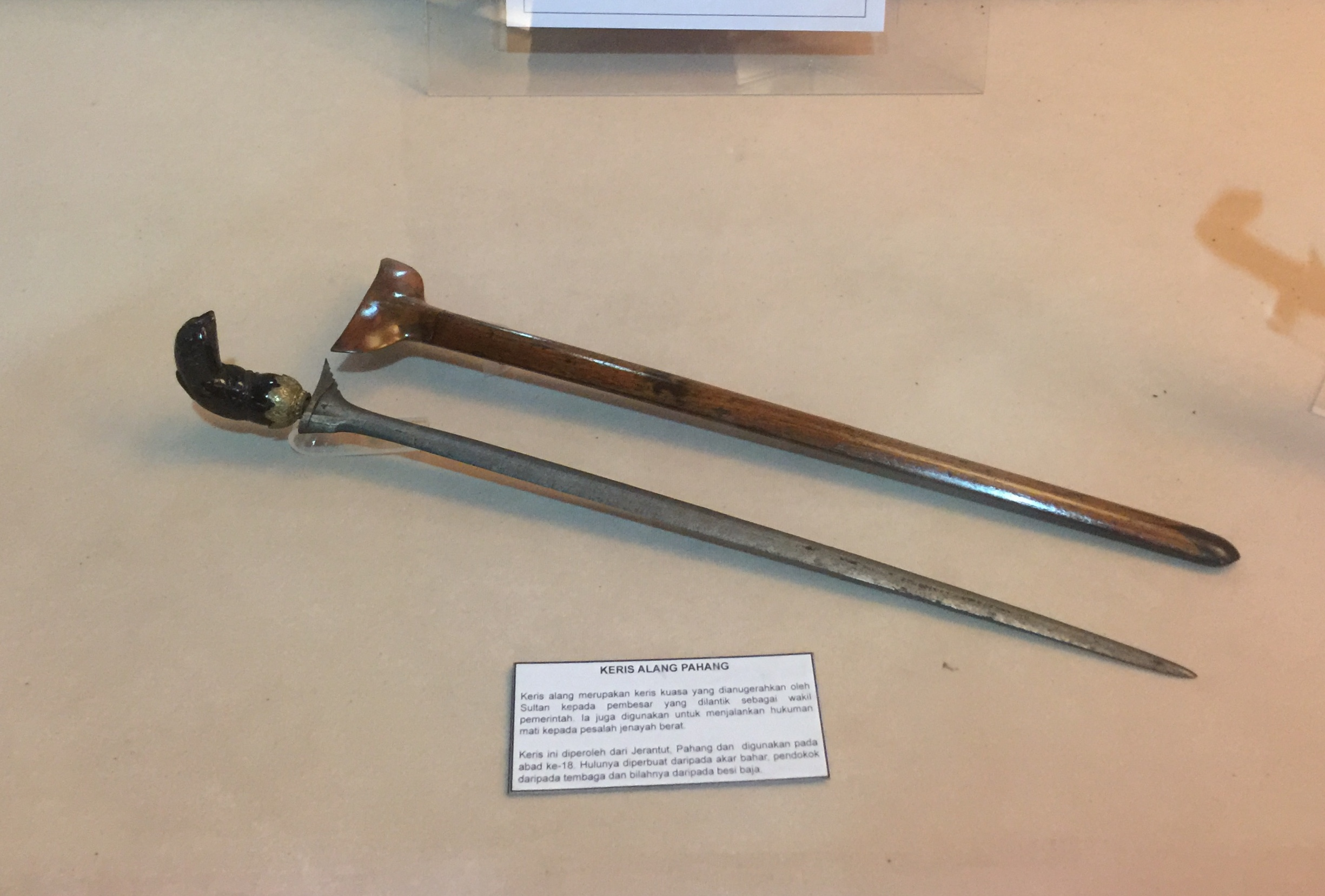 Keris Alang of Pahang. This is a ceremonial Keris awarded by the Sultan to territorial chiefs to represent the power and authority. It was also used to perform execution for high crimes. The Keris is originated from Jerantut, Pahang and used in the 18th century. The Hulu (hilt) is made of coral root (antipathes abies), pendokok from copper, and the blade is from steel.